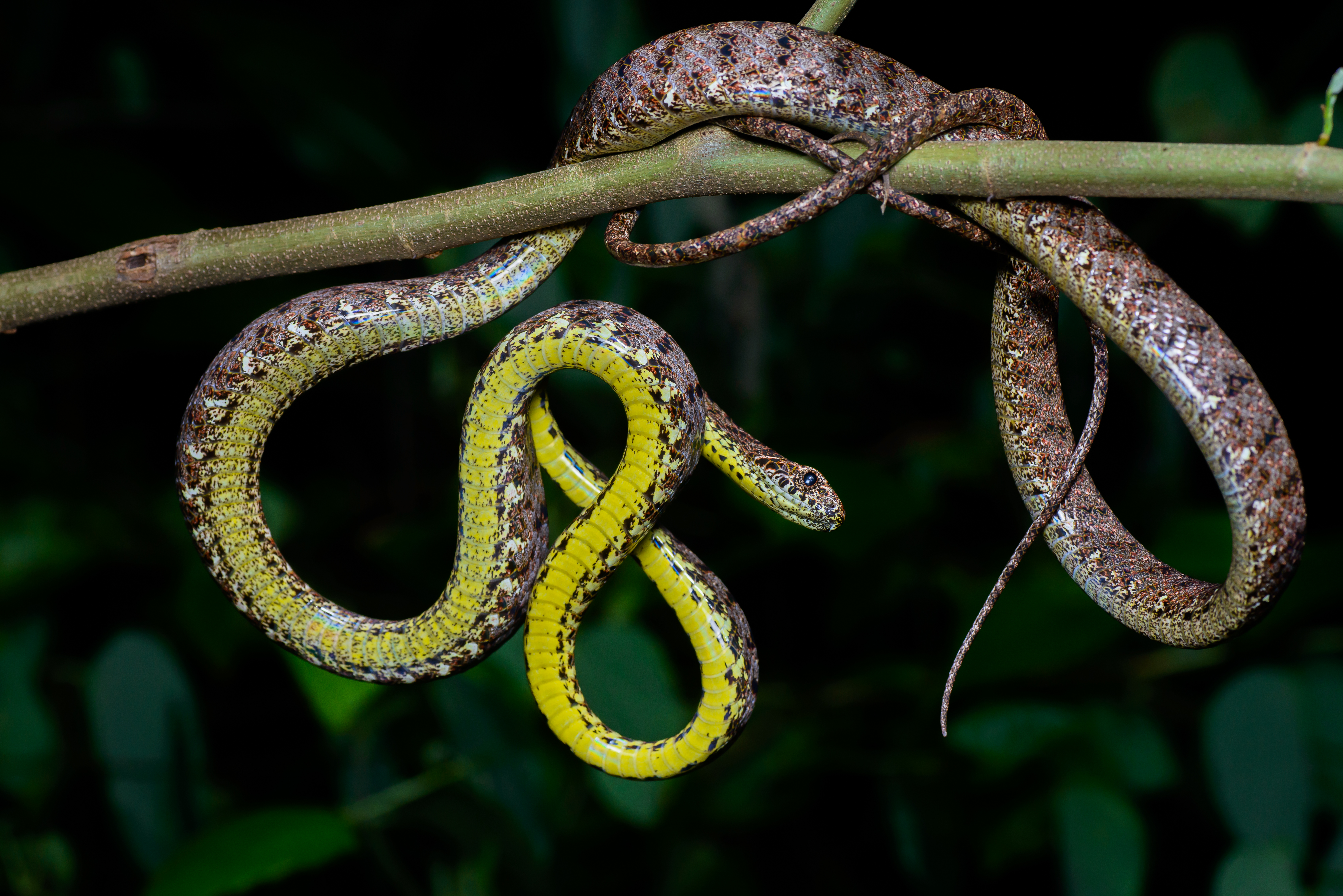 Boiga jaspidea, Jasper cat snake - Khao Luang National Park. Photo by Thai National Parks